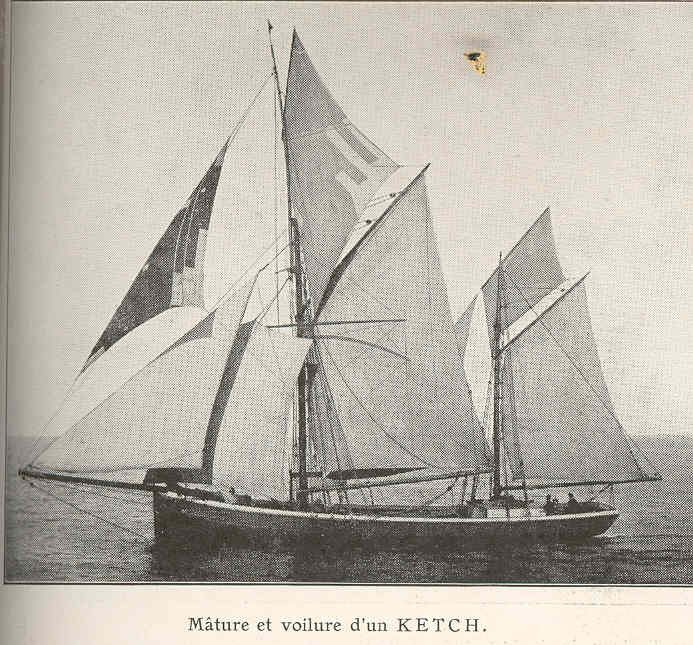 Subject: Masts and rigging, Sails, Boats, Sailboats Tag: Vessels